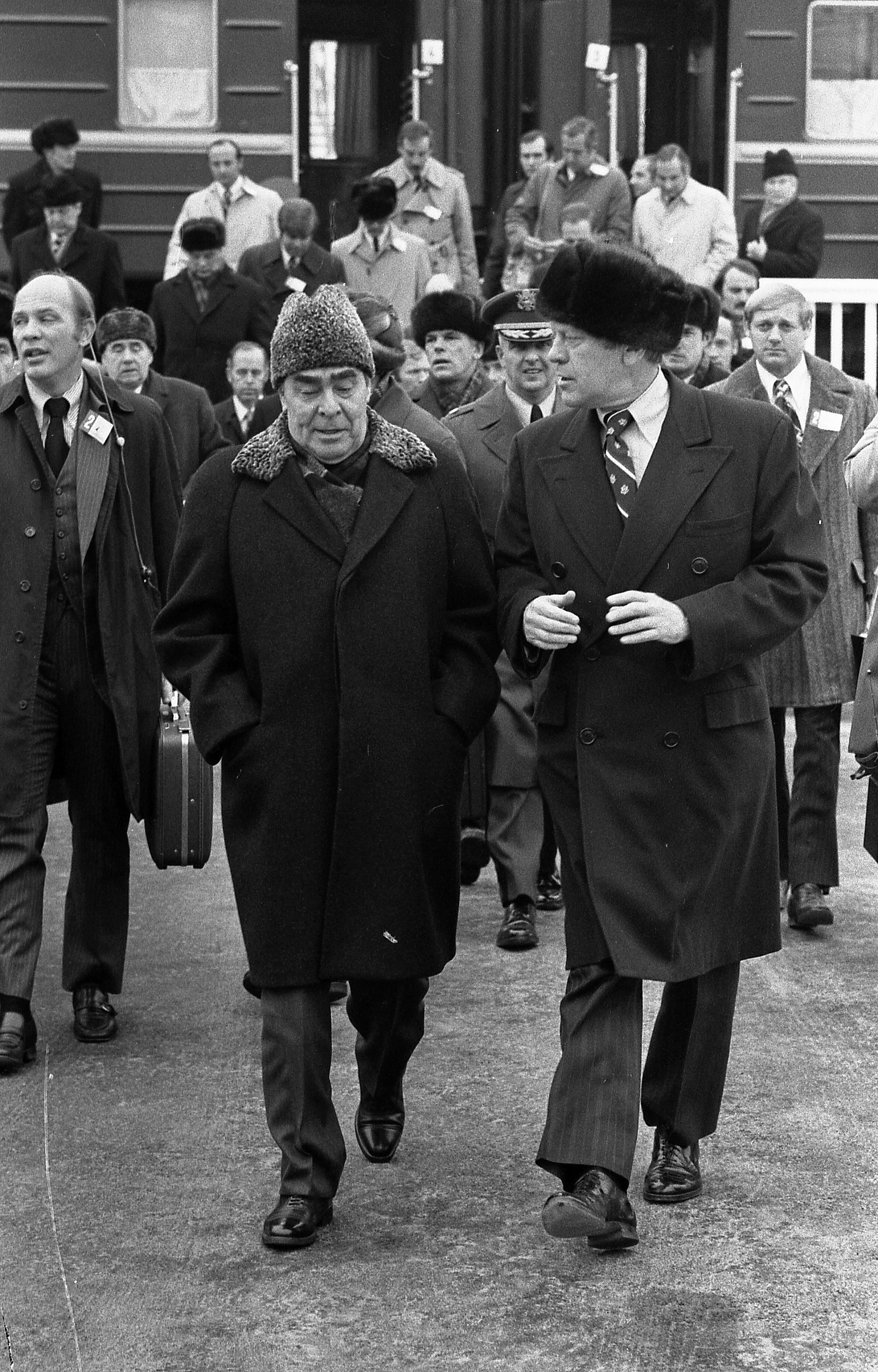 Photograph of President Gerald R. Ford and Soviet General Secretary Leonid I. Brezhnev departing from the train upon their arrival at the Okeansky Sanitarium, Vladivostok, U.S.S.R.